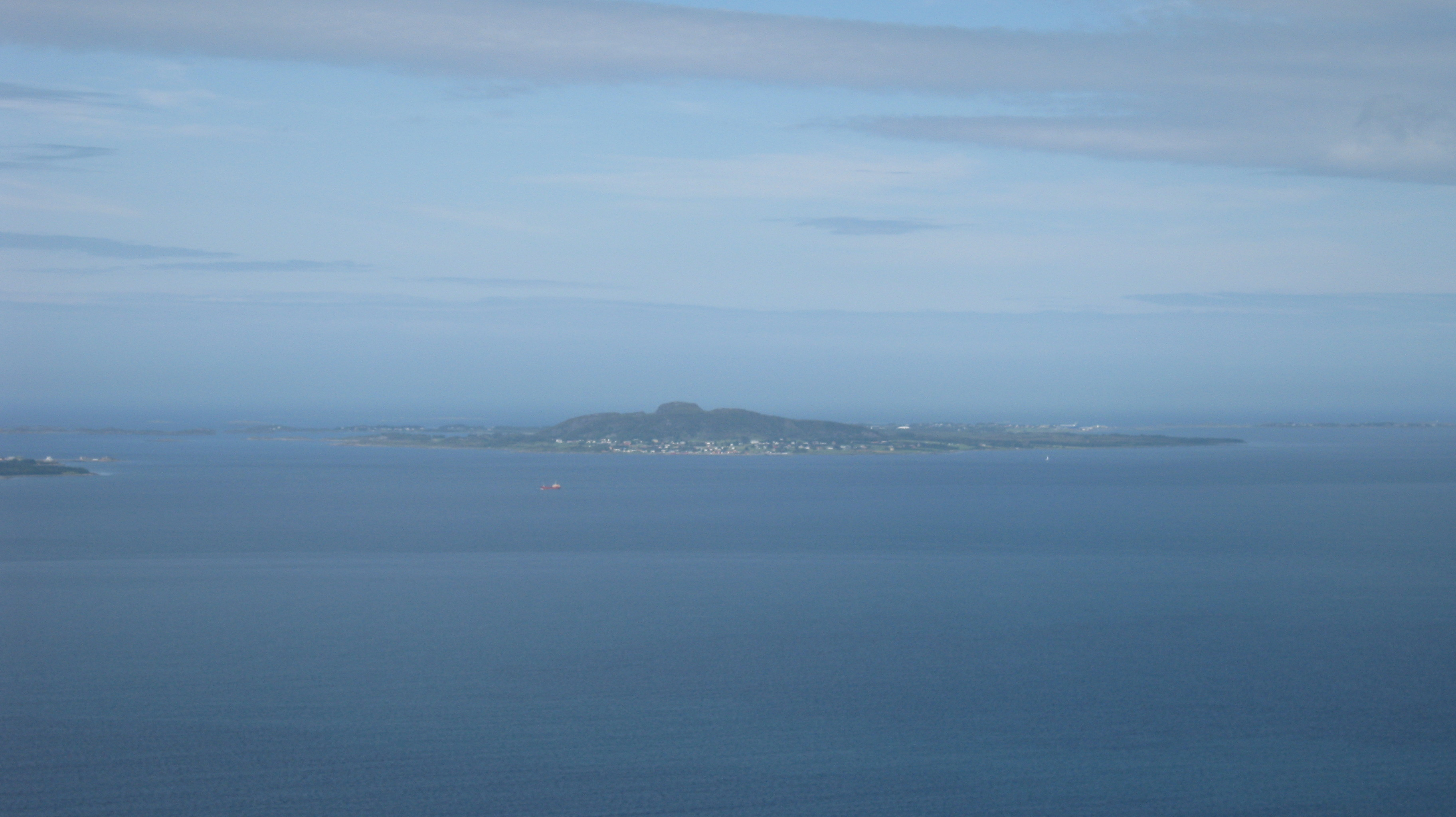 The island Harøy in Sandøy, Møre og Romsdal county, Norway. Photo taken from the slopes of Mt. Hellandshornet, on the mainland